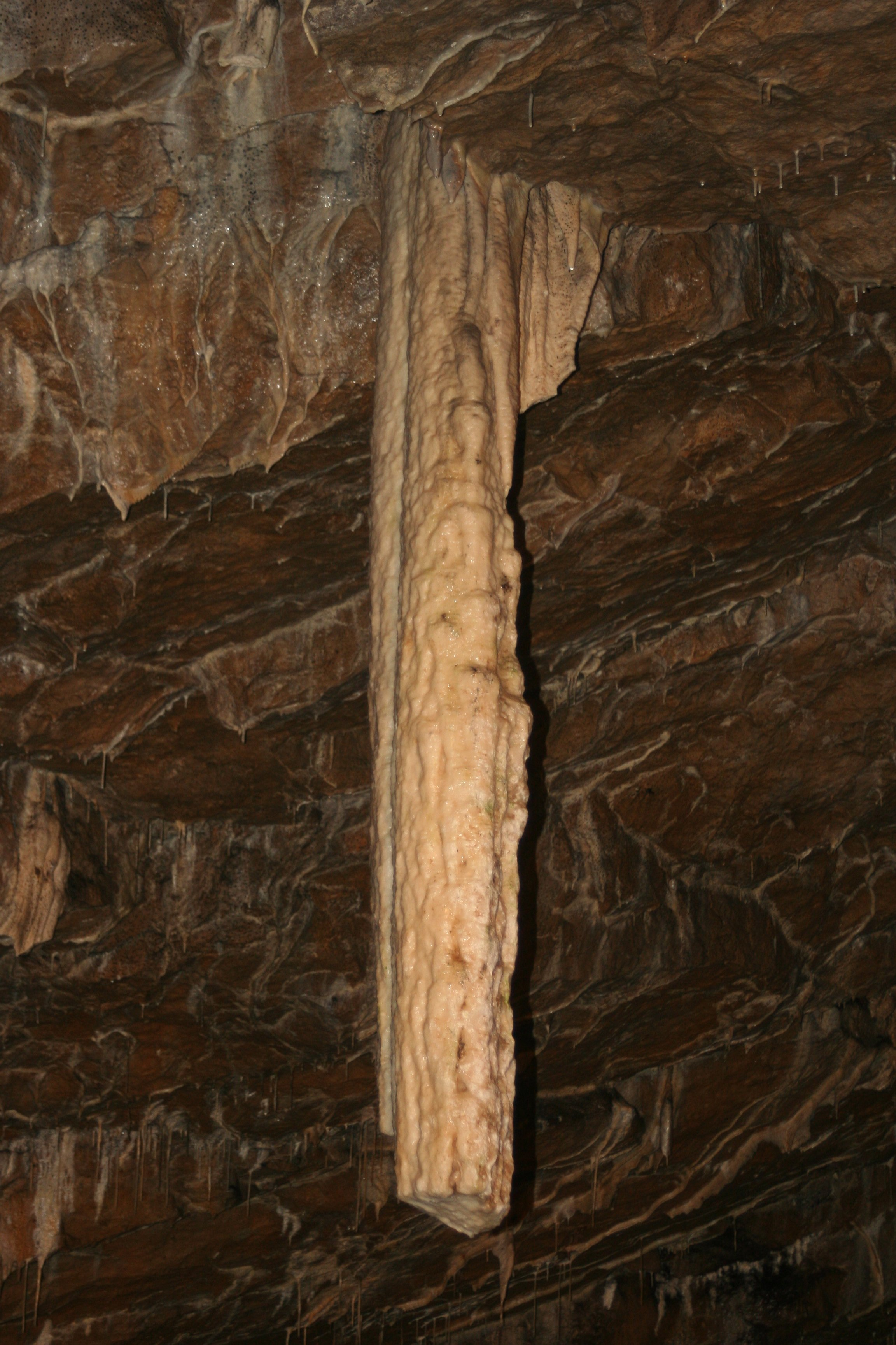 The "Flitch of Bacon" stalactite, in Poole's Cavern, in Buxton, Derbyshire, England.